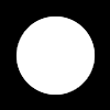 WW1 divisional patch (White circle on black) for the British 7th Infantry Division.